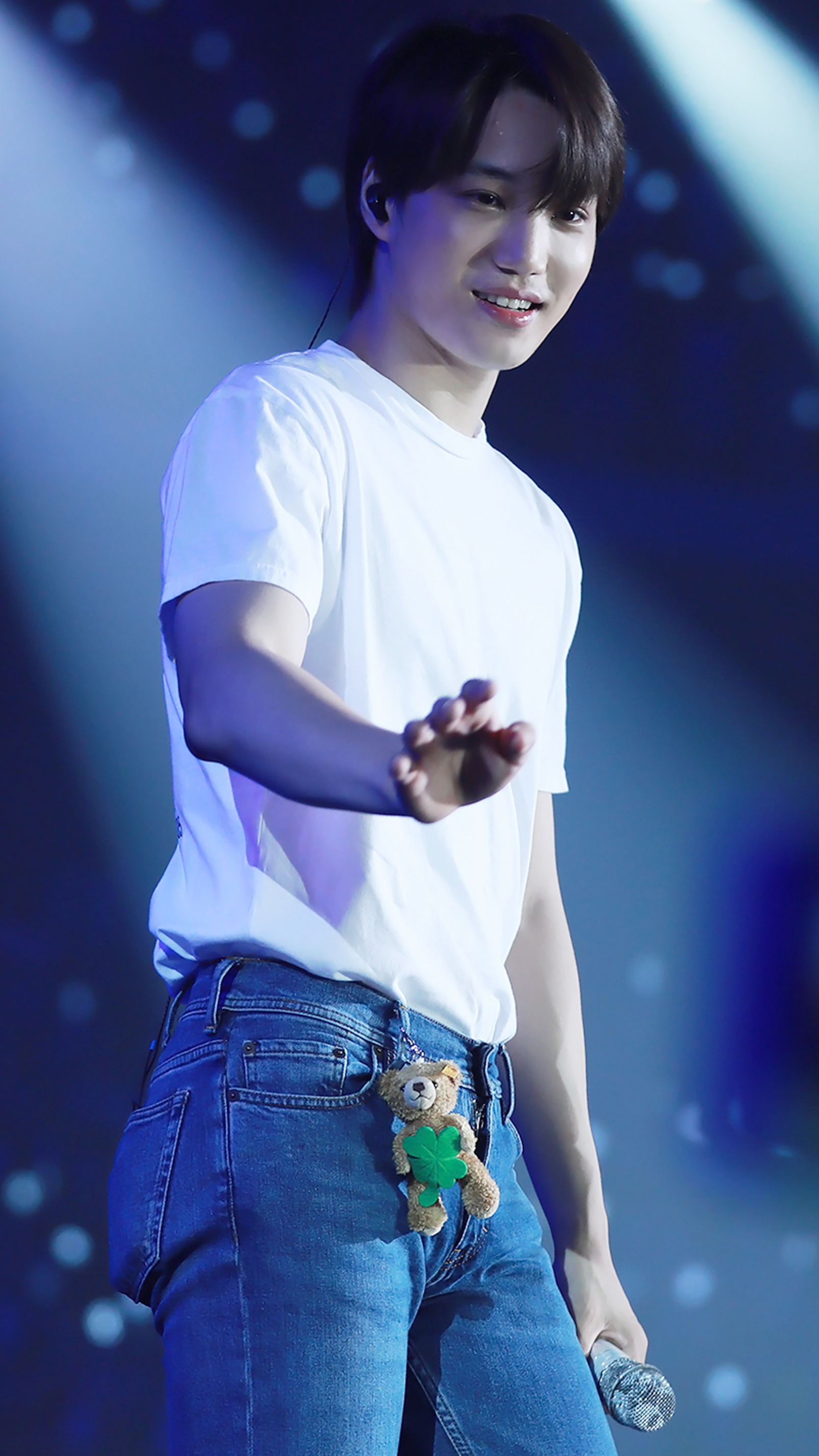 Kai during the "Exo Planet 4 - The EℓyXiOn" in Macau, on August 11, 2018.